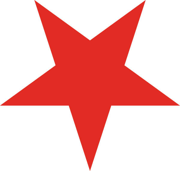 SK Slavia Prague - StarСрпски (ћирилица): СК Славија Праг - ЗвездаSrpskohrvatski / српскохрватски: СК Славија Праг - Звијезда